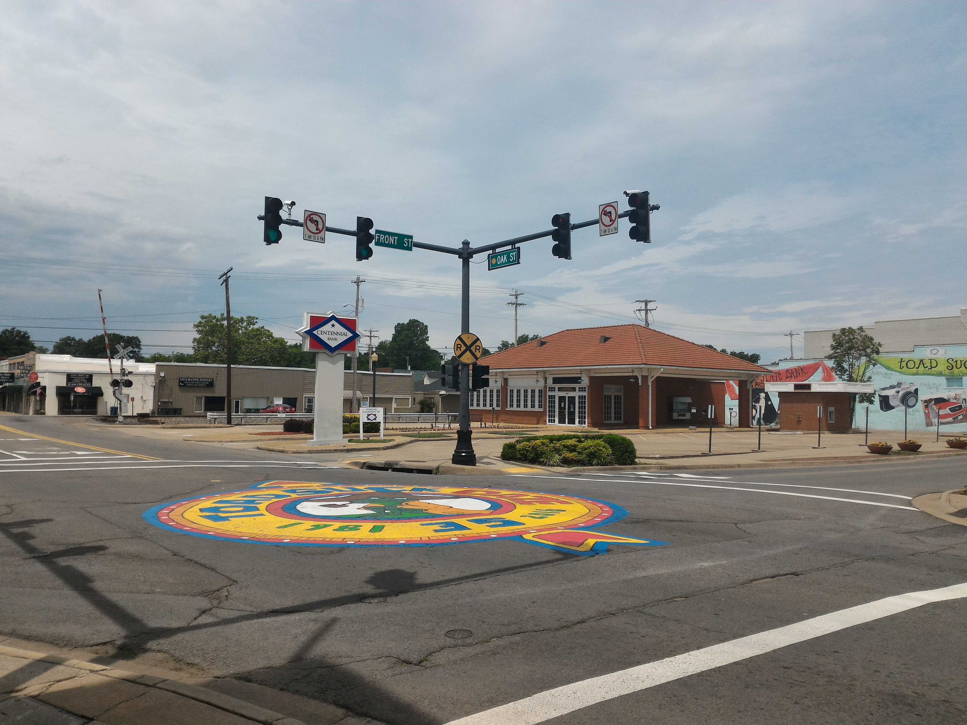 Toadsuck Square and Old Conway Rail Depot